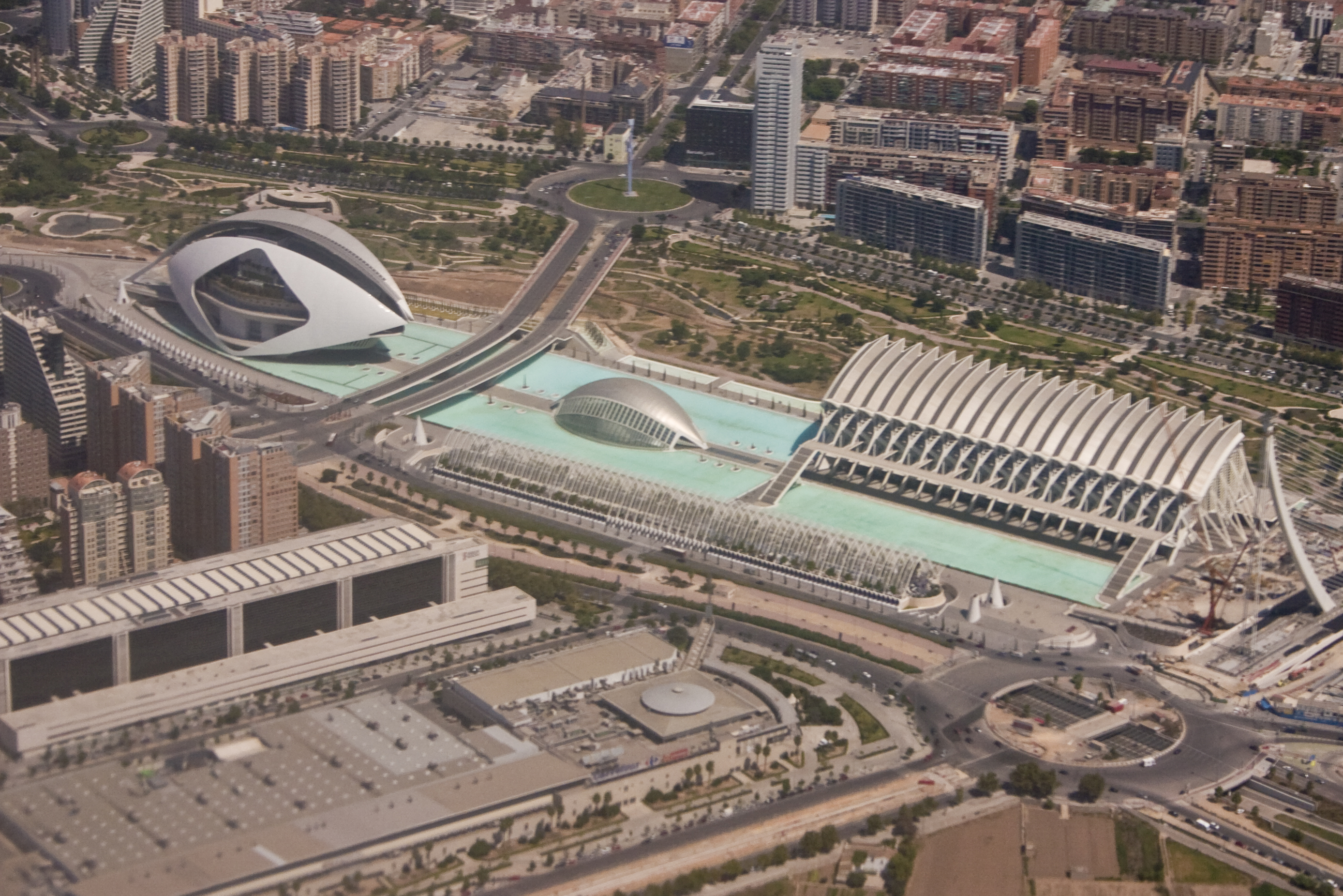 An aerial image taken from a Boeing 737 on the EMA to VLC flight path of The Ciutat de les Arts i les Ciències (Valencian), Ciudad de las Artes y las Ciencias (Spanish) or City of Arts and Sciences. The buildings are situated in the Turia Gardens, a dry river bed of the now diverted River Turia in Valencia, Spain. The image depicts: El Palau de les Arts Reina Sofía (opera house and performing arts centre), L'Hemisfèric (Imax Cinema, Planetarium and Laserium), L'Umbracle (walkway / Garden) and El Museu de les Ciències Príncipe Felipe (science museum). Taken using Canon 300D, ISO 100, 55mm (18-55mm), f/8, 1/1500 sec